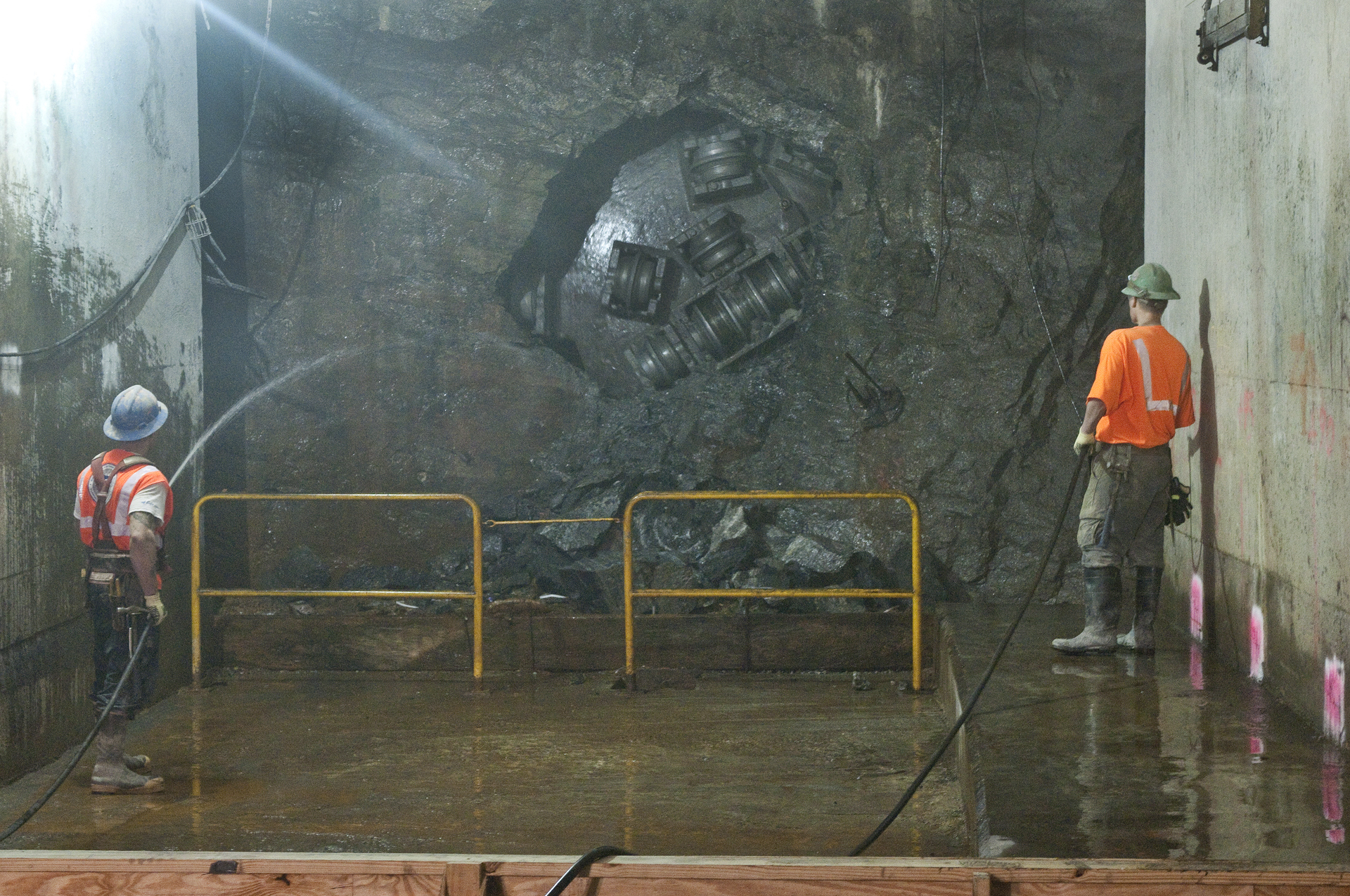 Workers completed tunneling for the first phase of the Second Avenue Subway on Sept. 22, 2011, when the project's tunnel boring machine reached the Lexington Av-63 St station, breaking into the existing subway system. The 485-ton, 450-foot-long TBM used a 22-foot diameter cutterhead to mine 7,789 linear feet in two tunnels, averaging approximately 60 linear feet a day. Photo by Metropolitan Transportation Authority / Patrick Cashin.